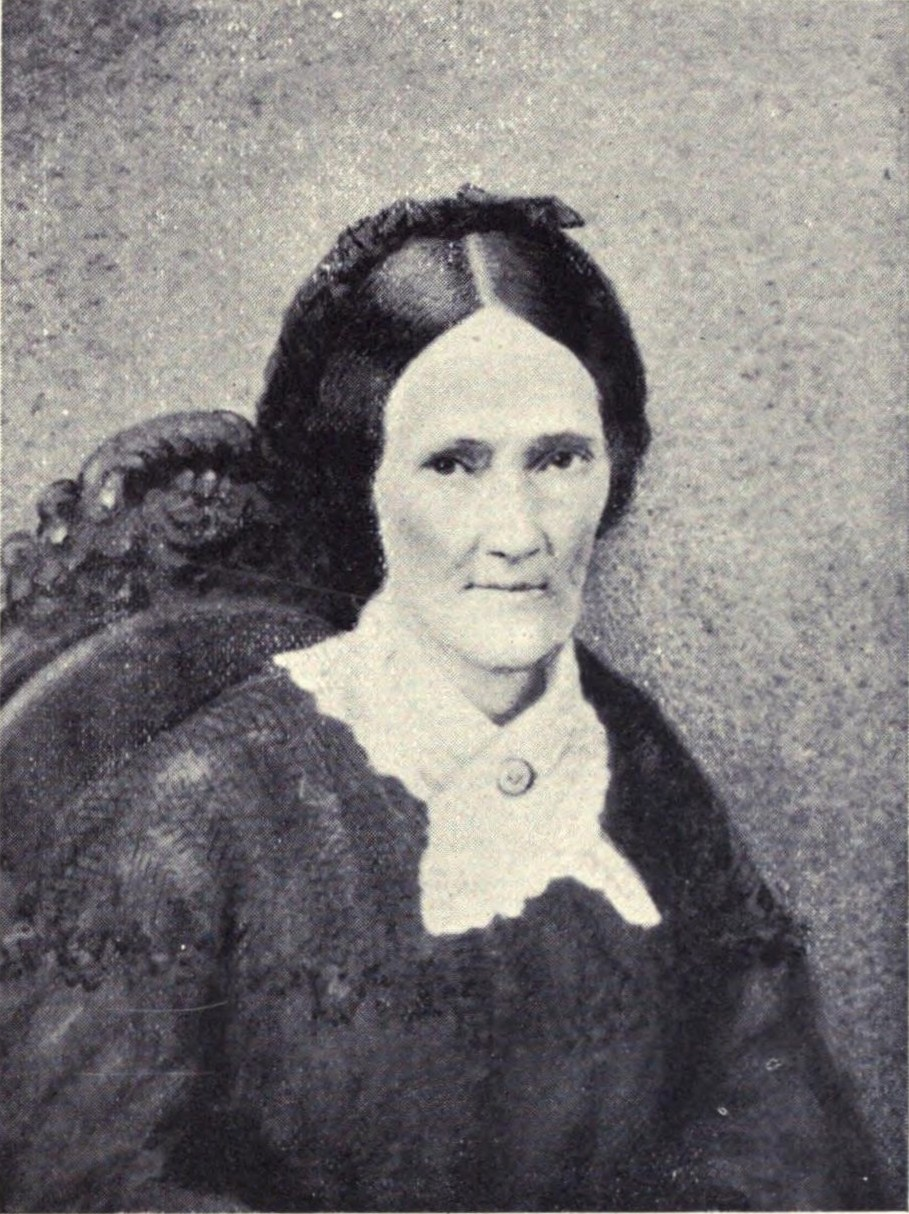 Mrs. Mary Ann Wilson Andrews (13 March 1804 – 10 March 1879), wife of Lorrin Andrews, a missionary to Hawaii and judge.